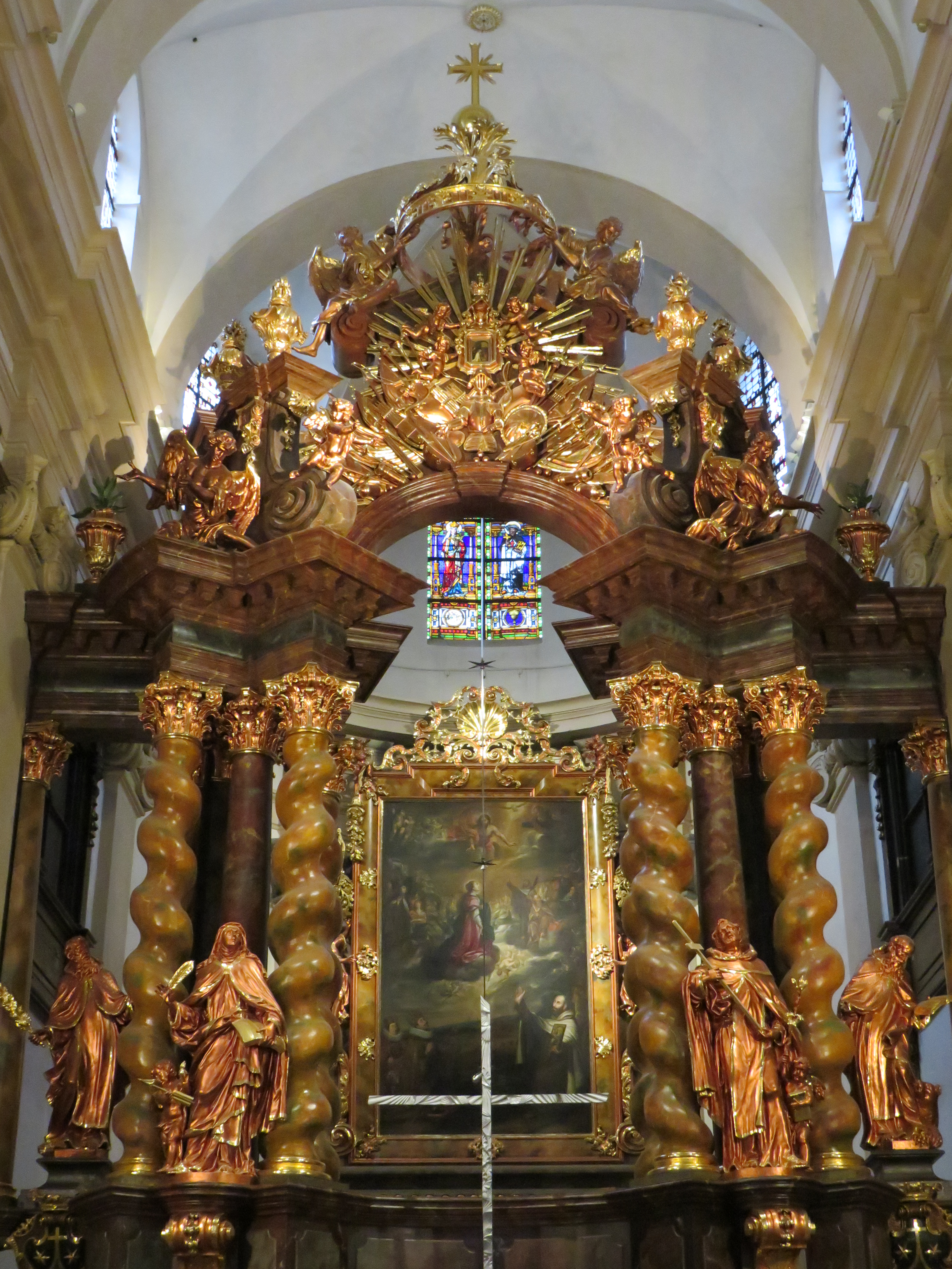 Interior (chancel) of the Church of Our Lady of Victories, in Malá Strana (Prague, Czech Republic).